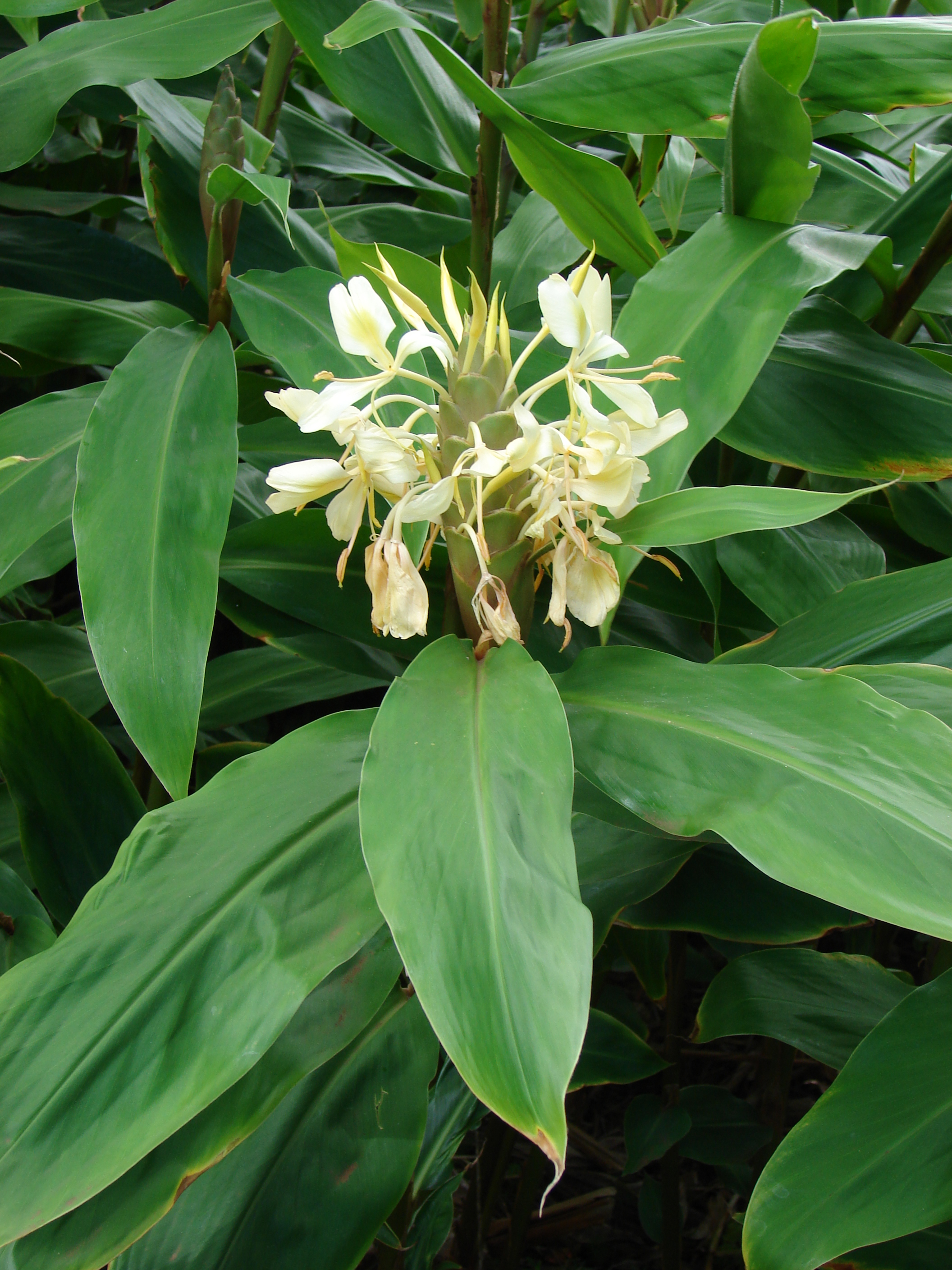 Hedychium flavescens (flowers and leaves). Location: Maui, Enchanting Gardens of Kula